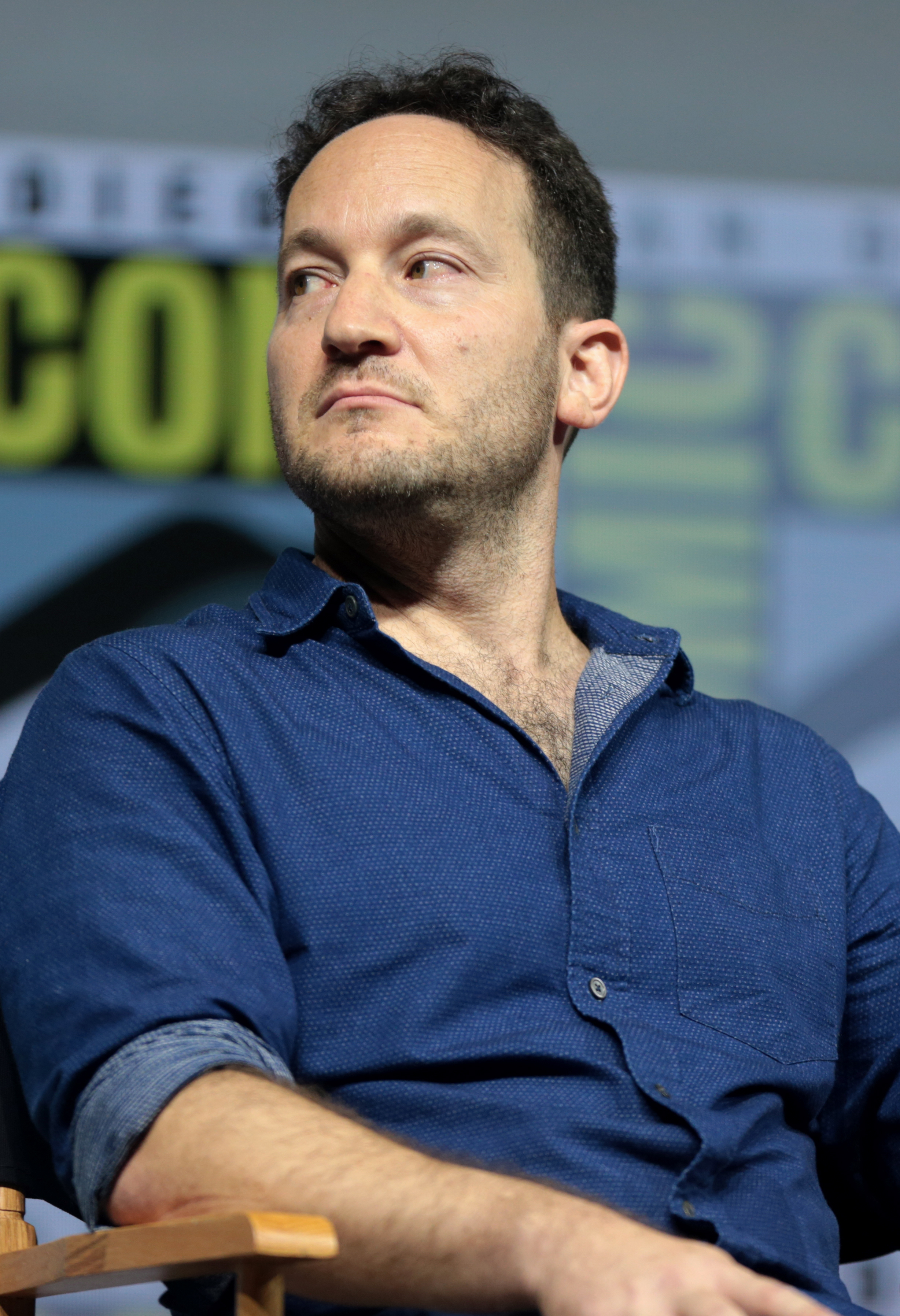 Rodney Rothman speaking at the 2018 San Diego Comic-Con International in San Diego, California.